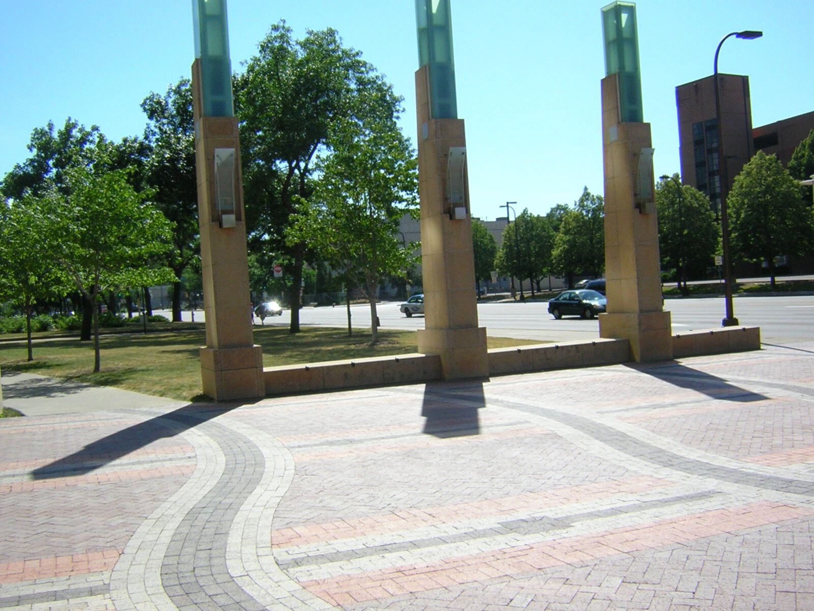 Hennepin Avenue and 1st Street, looking south, Minneapolis, Minnesota Gateway District 7 July 2007